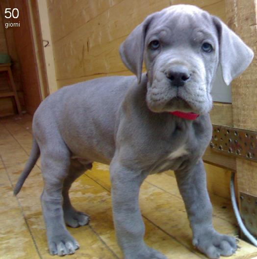 Blue puppy.